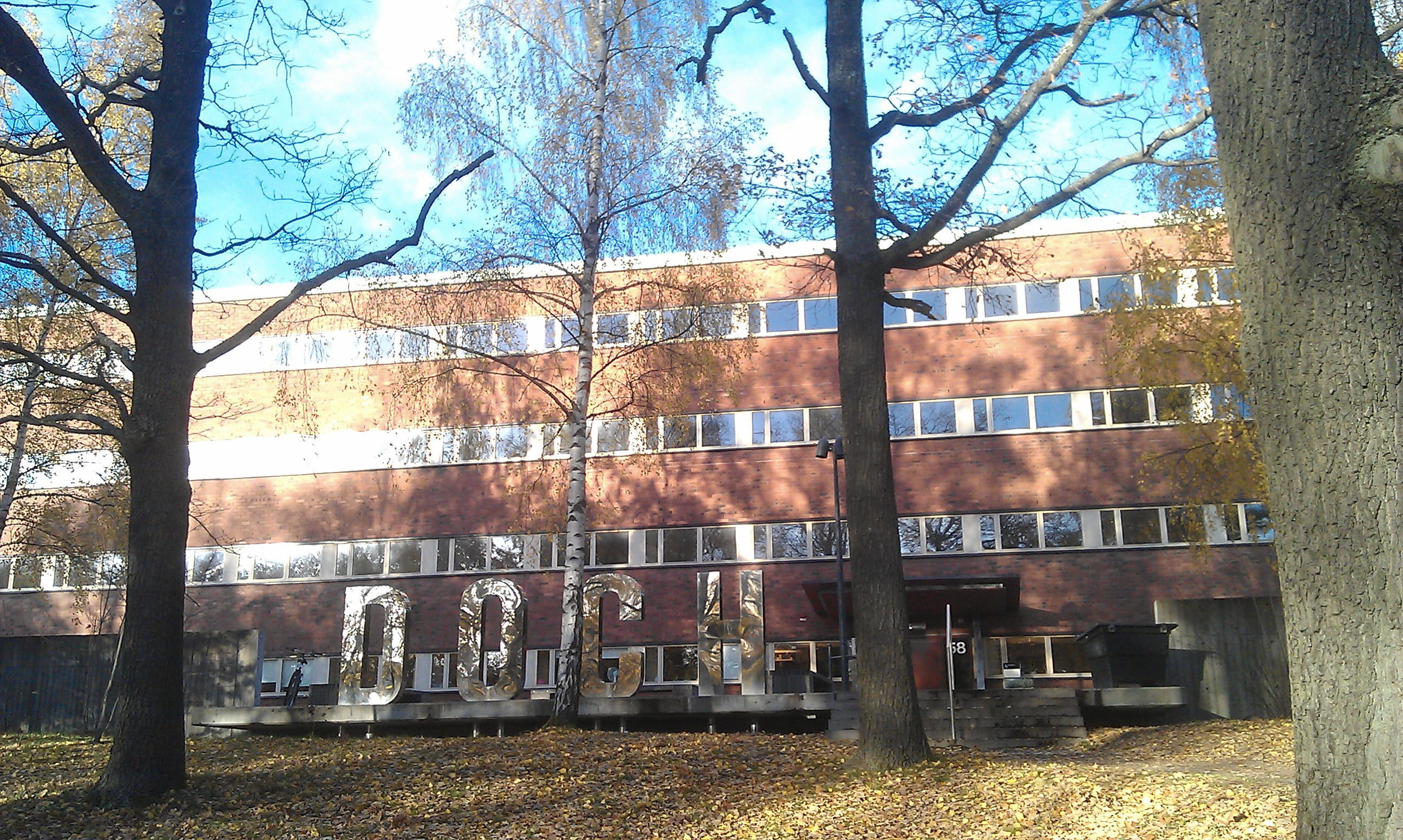 University of Dance and Cirkus, Brinellvägen 58, Stockholm